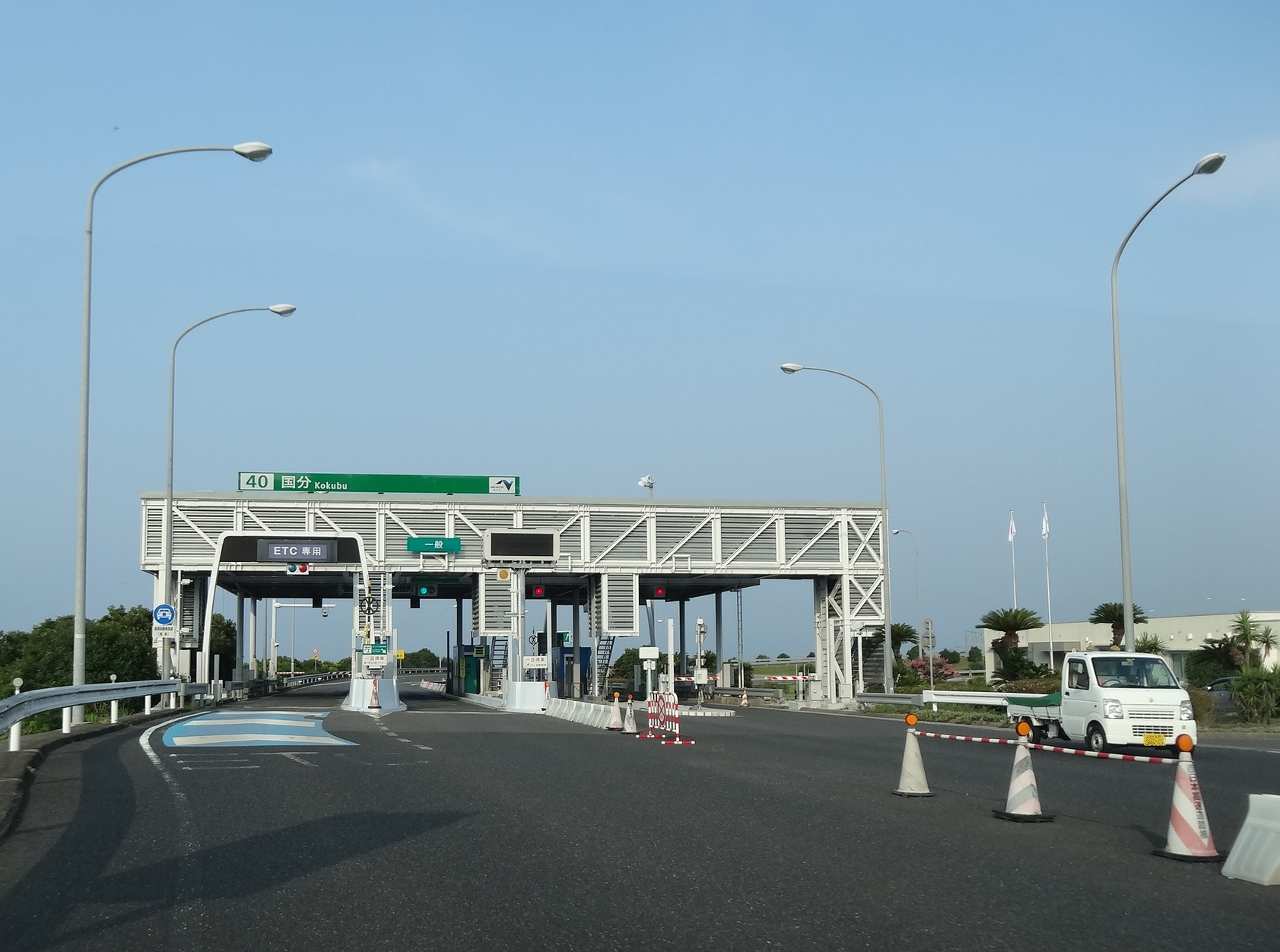 Toll plaza at Kokubu Interchange on the Higashi-Kyushu Expressway in Kirishima City, Kagoshima Prefecture, Japan